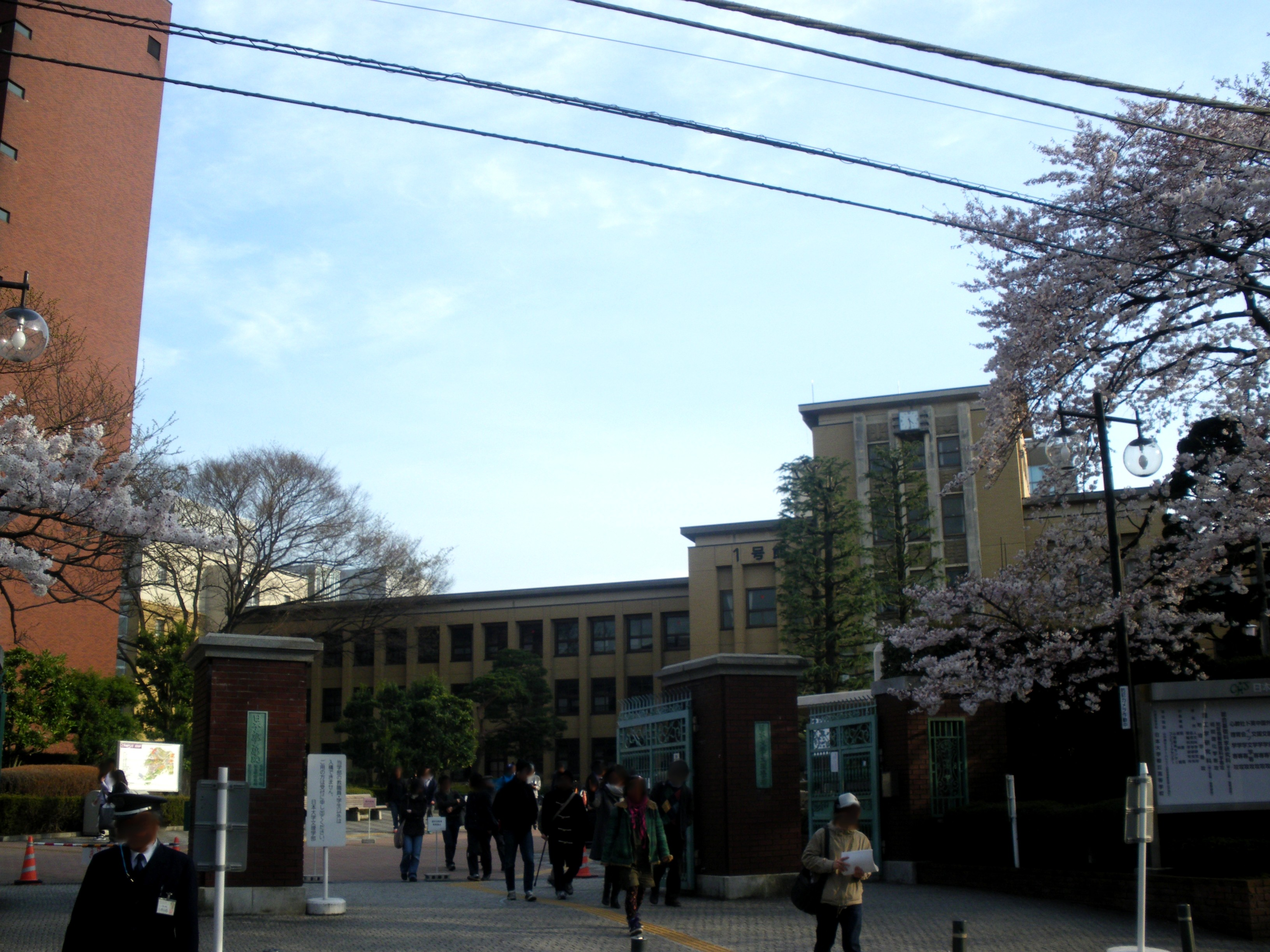 Nihon_University college of humanities and sciences(Sakurajosui,Setagaya,Tokyo)